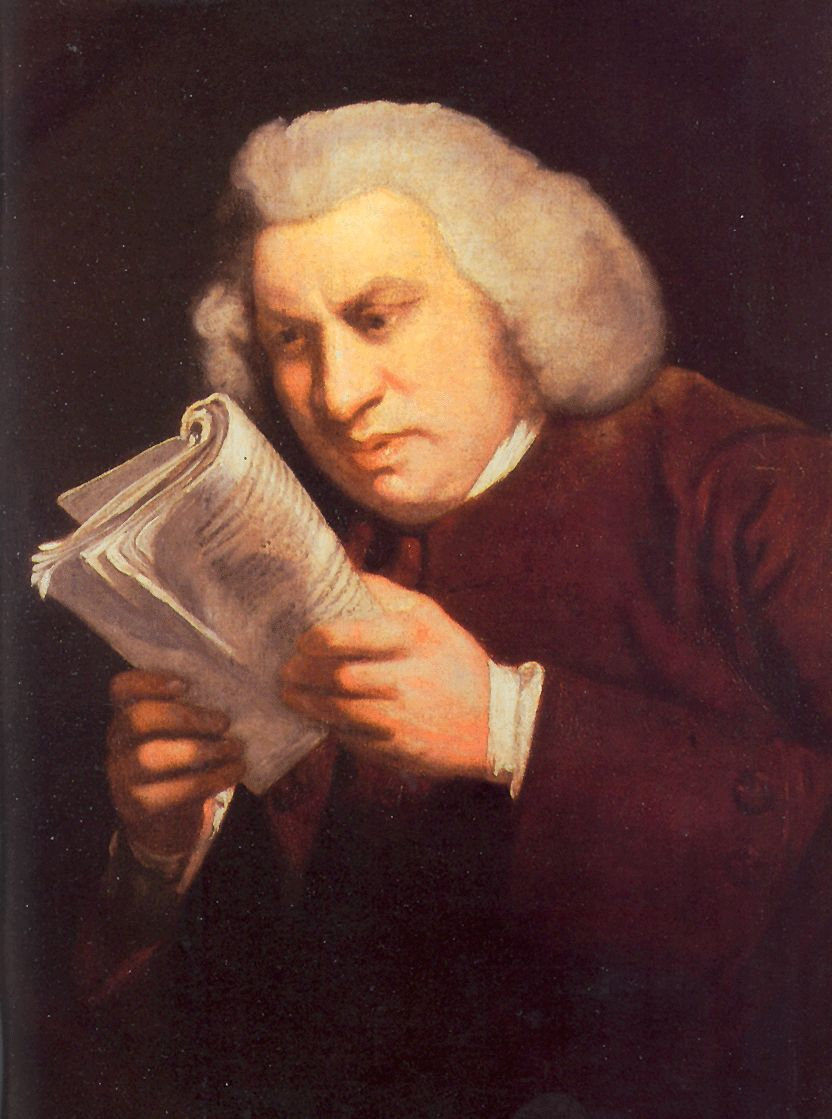 A portrait of Samuel Johnson by Joshua Reynolds showing Johnson pulling a book's cover back and concentrating intensely on its words. It also, Johnson felt, shows his weak eyes.